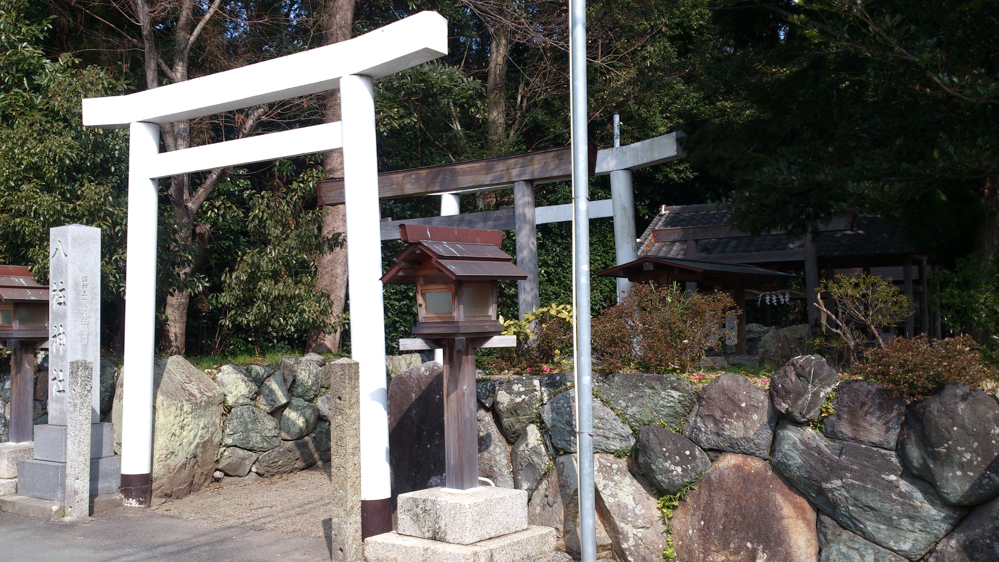 This is the Yahashira Shrine in Obatacho-Motomachi, Ise, Mie, Japan.